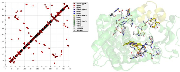 HB Plot and structure of Cytochrome P450 2B4 in closed form. author: Zsolt Bikadi